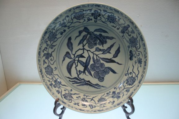 A Chinese Ming Dynasty (1368-1644 AD) blue-and-white porcelain dish from the reign of the Yongle Emperor (1402-1424 AD).